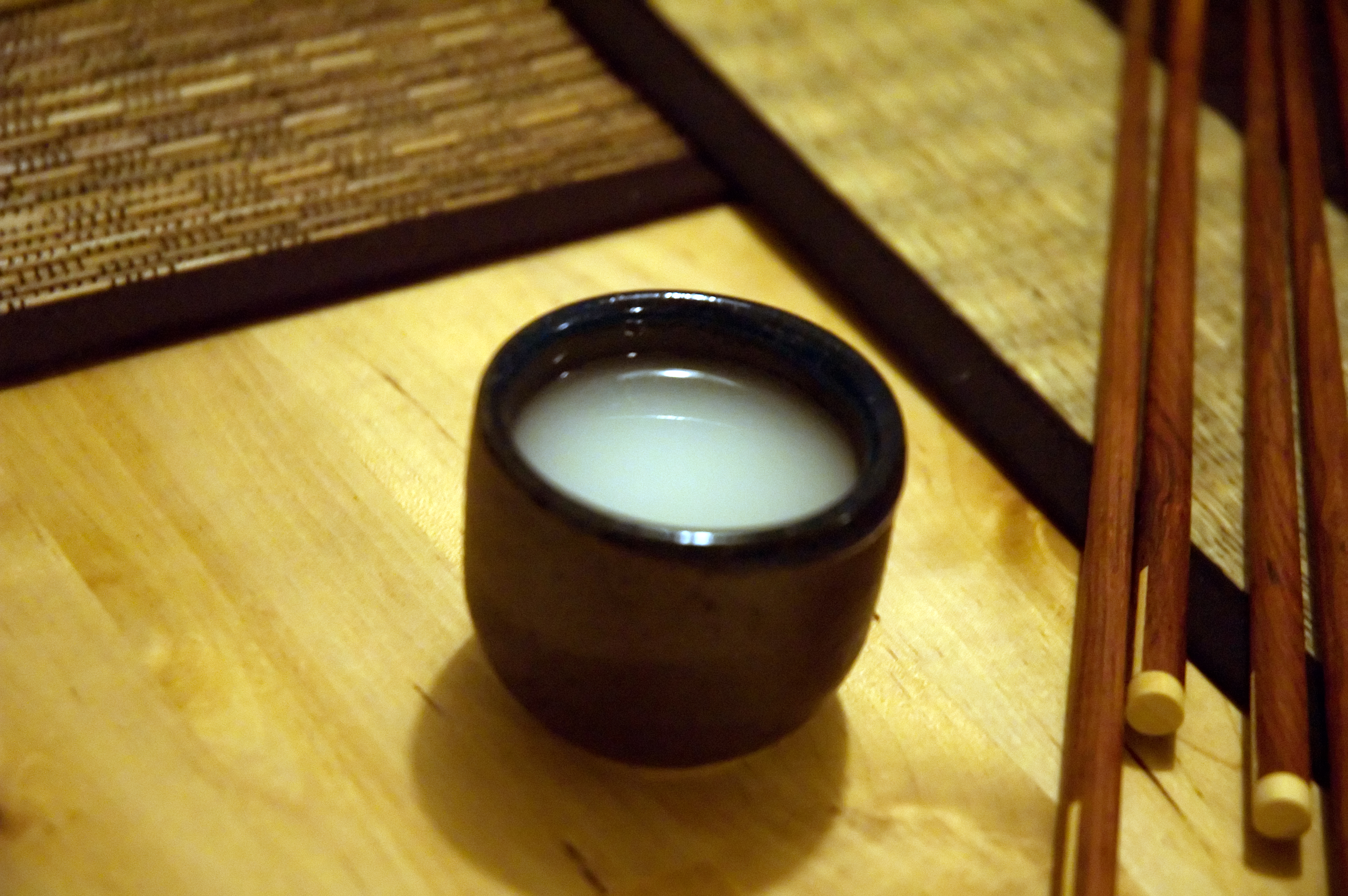 Nigori sake, unfiltered Japanese rice wine.